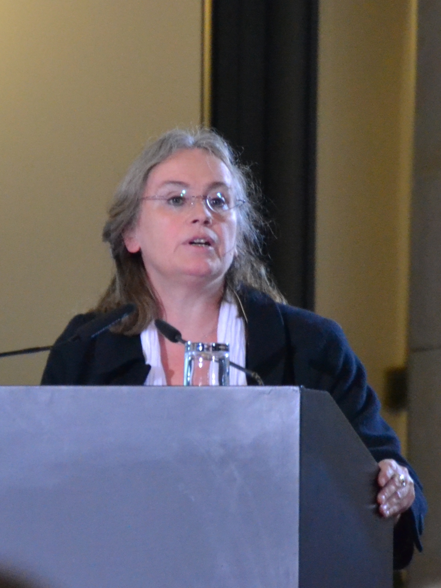 Academies day 2015 at the Berlin-Brandenburg Academy of Science in Berlin; Theme: "Old world today: Perspectives and threats". Image:Professor of Literature science Monika Schmitz-Emans.